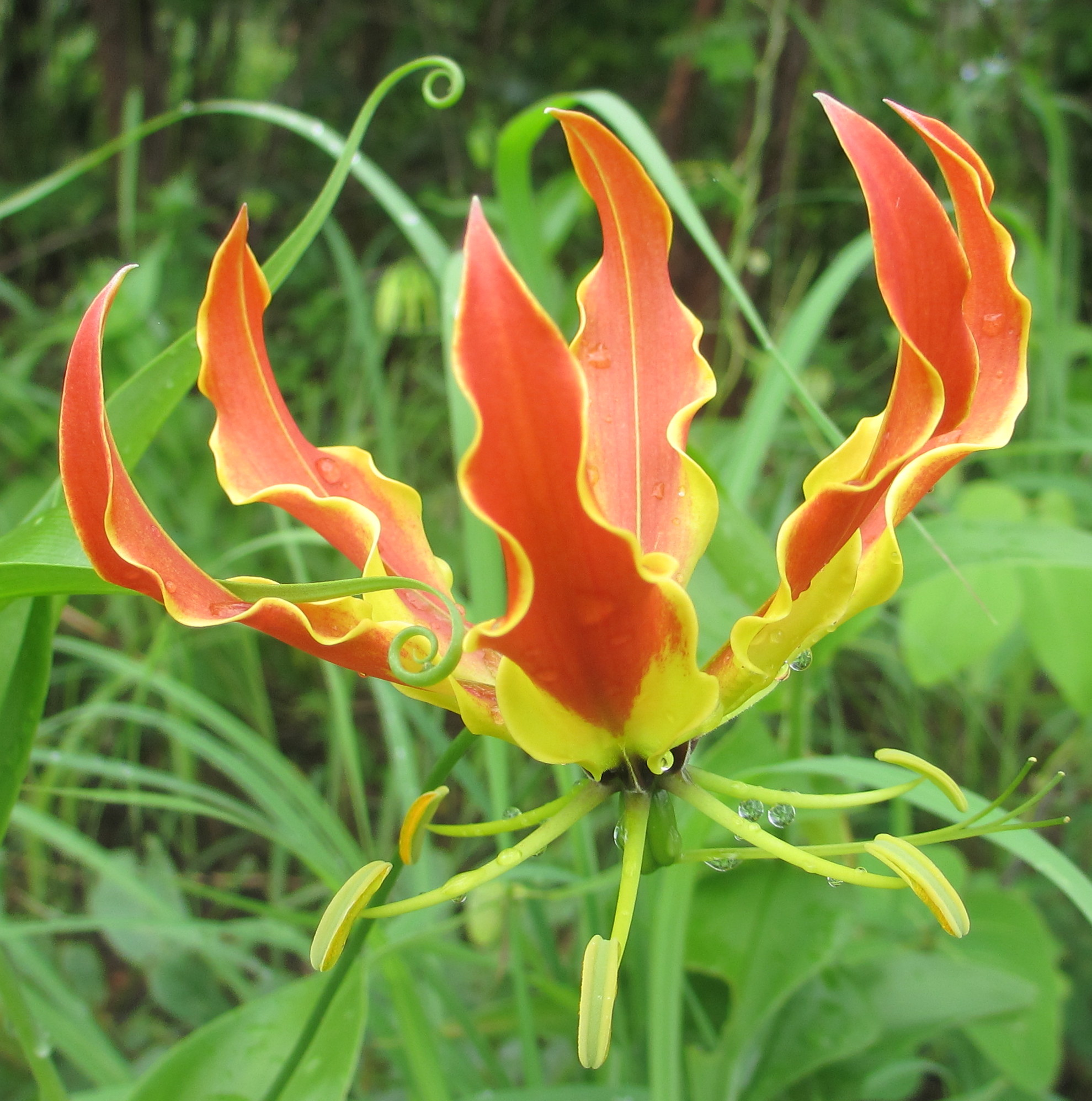 Grassland with wild Gloriosa superba in the rainy season. Balama district of Mozambique.